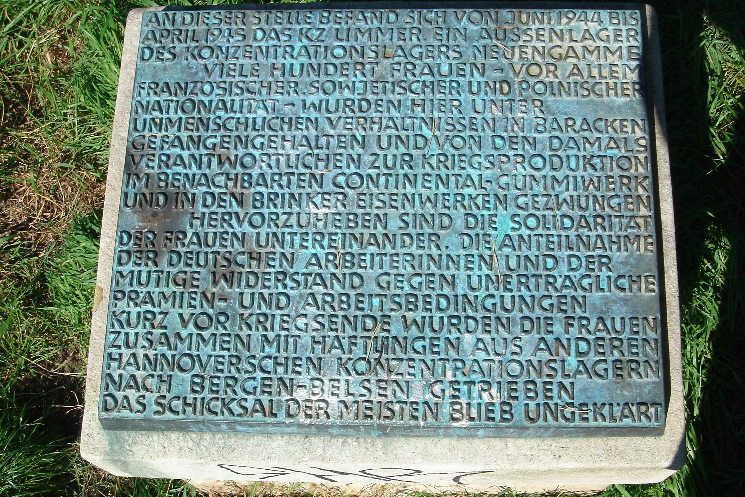 Hanover Limmer concentration camp memorial